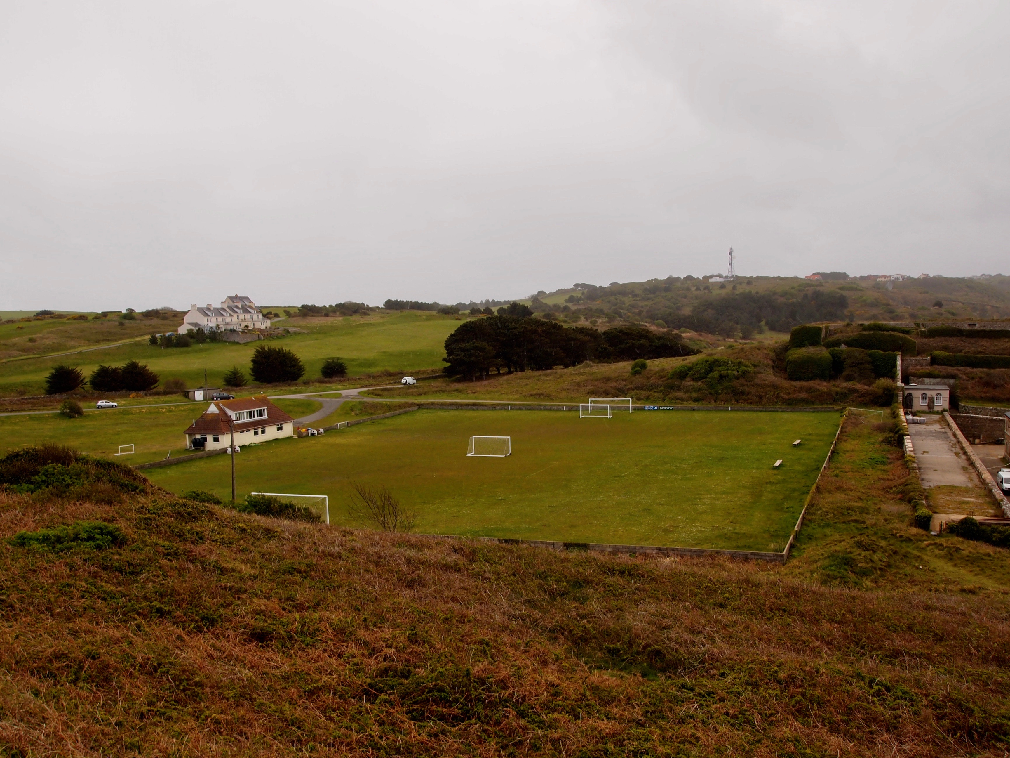 Overhead shot of the ground from Mount Hale.